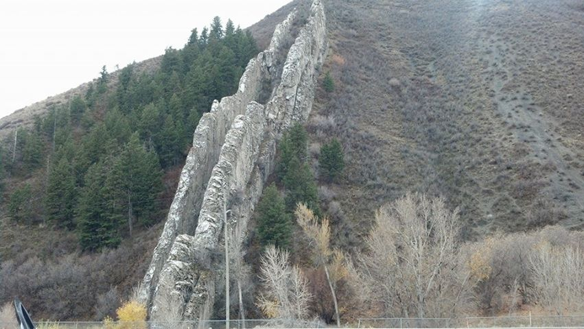 Devils Slide Utah